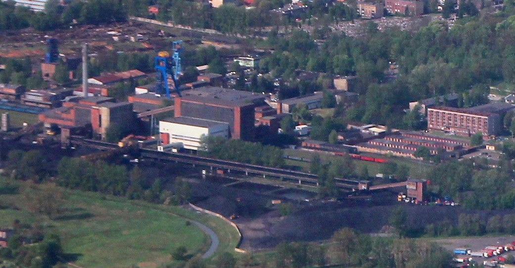 View from the northeast towards Julian coal mine in Piekary Śląskie, Poland.